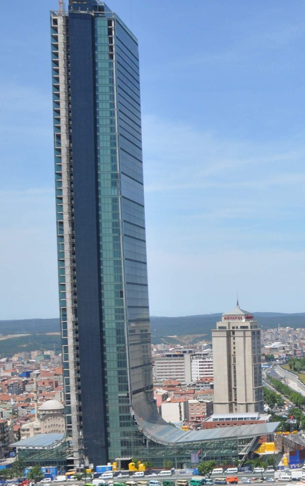 Istanbul Sapphire overall